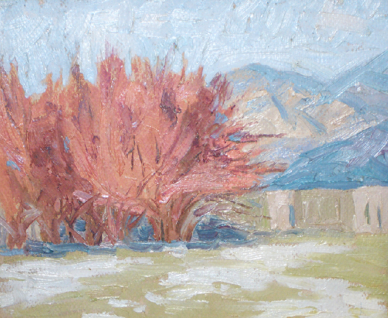 "After the Snowfall" — by Cordelia Wilson, oil painting Landscape painted in New Mexico, U.S.